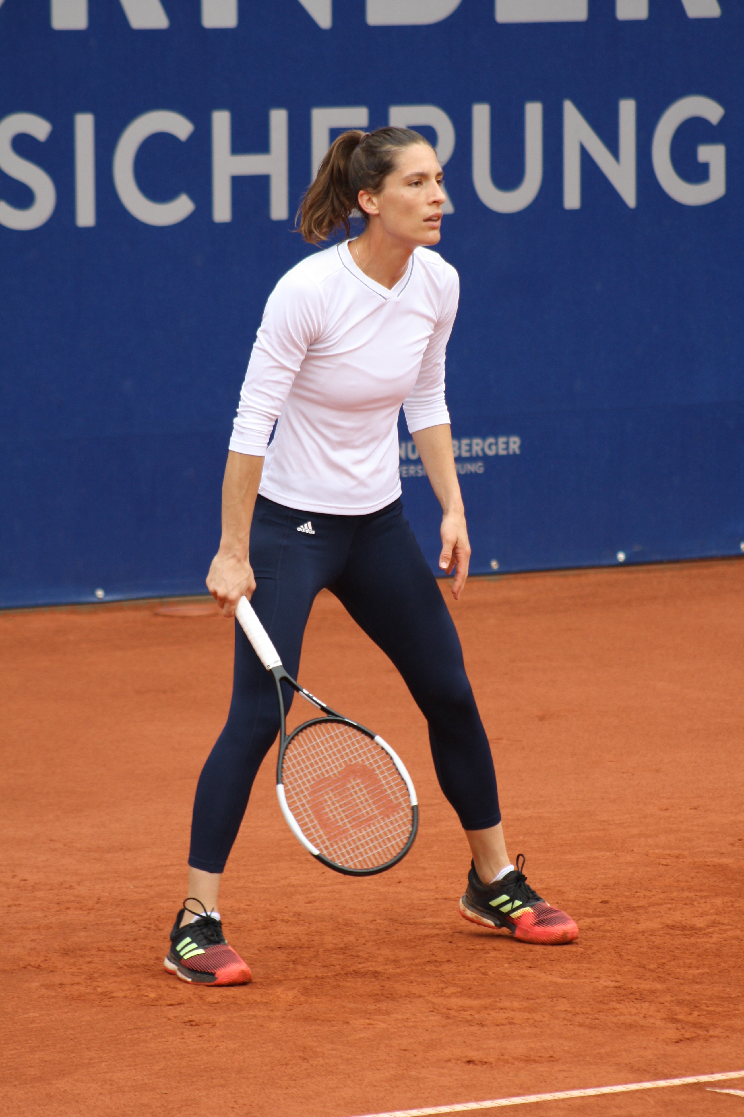 Andrea Petković, May 2019